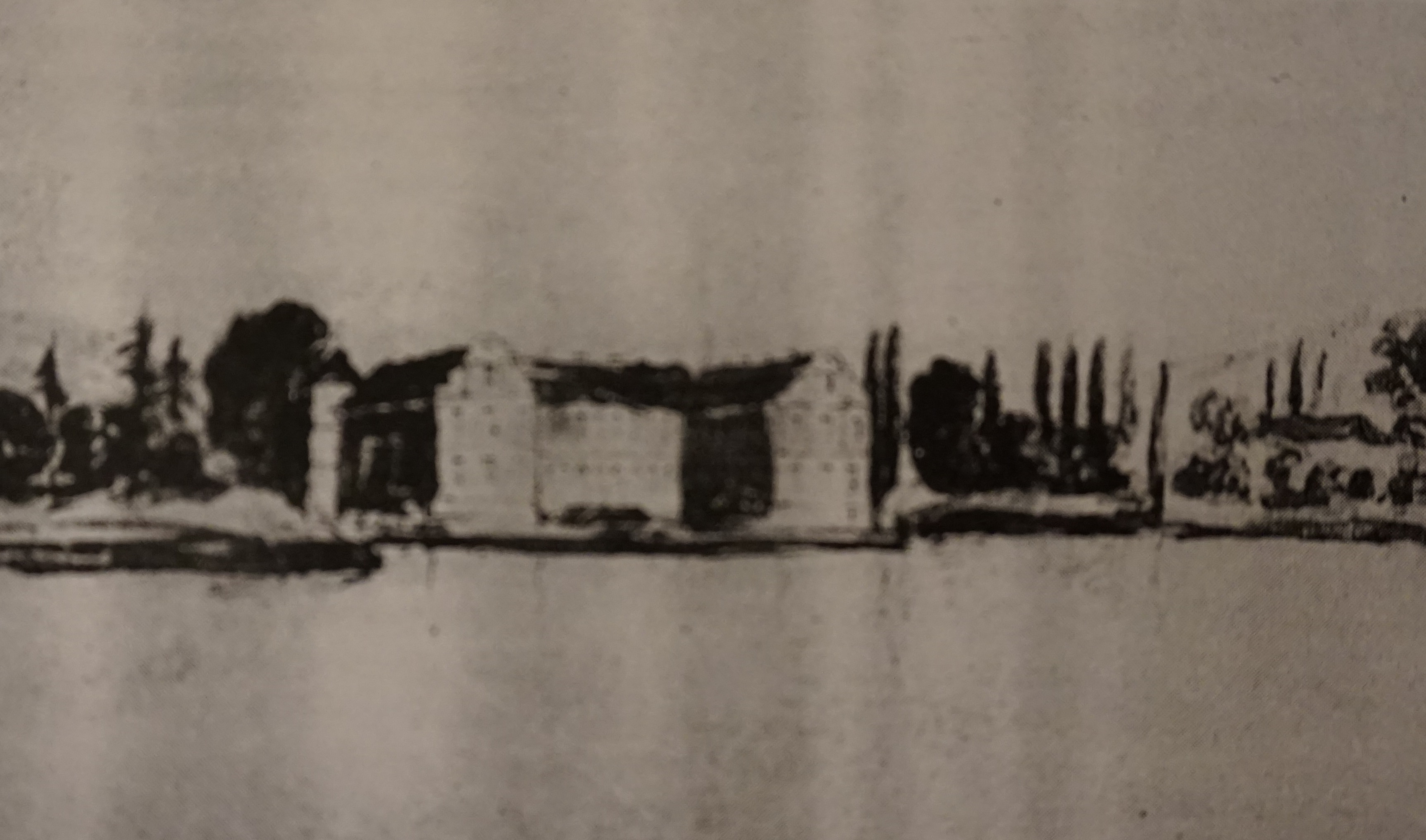 palace in Warkowicze, Belarus